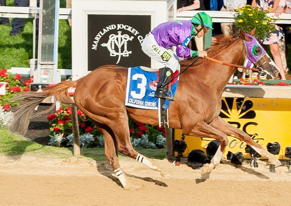 Finish of the 139th Preakness Stakes. by Jay Baker at Baltimore, MD.